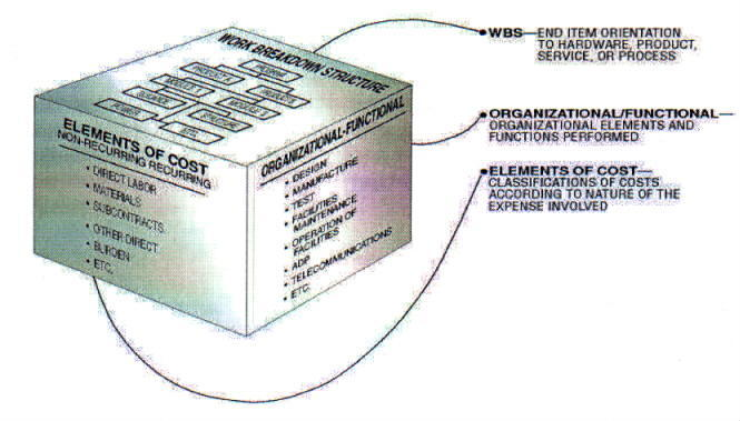 NASA NF 533 reporting structure Both NASA and the contractor, to varying degrees, require the capability of providing an array of data from a single base, as illustrated in Figure 2, which can identify costs by organization or function, contract work breakdown structure (WBS), and type of element. The NF 533 reporting structure, therefore, shall be a matrix that provides adequate management visibility into the appropriate combination of these data. The WBS is a family tree subdivision of effort required to achieve an objective (e.g., program, project, and contract). It may be hardware, product, service, or process oriented. For a contract, the WBS is developed by starting with the end objective and successively subdividing it into manageable components in terms of size, duration, and responsibility (e.g., systems, subsystems, components, tasks, subtasks, and work packages) which include all steps necessary to achieve the objective. It provides a common framework for the natural development of the overall planning and control of a contract and is the basis for dividing work into definable increments from which the statement of work can be developed and technical, schedule, cost, and labor hour reporting can be established.